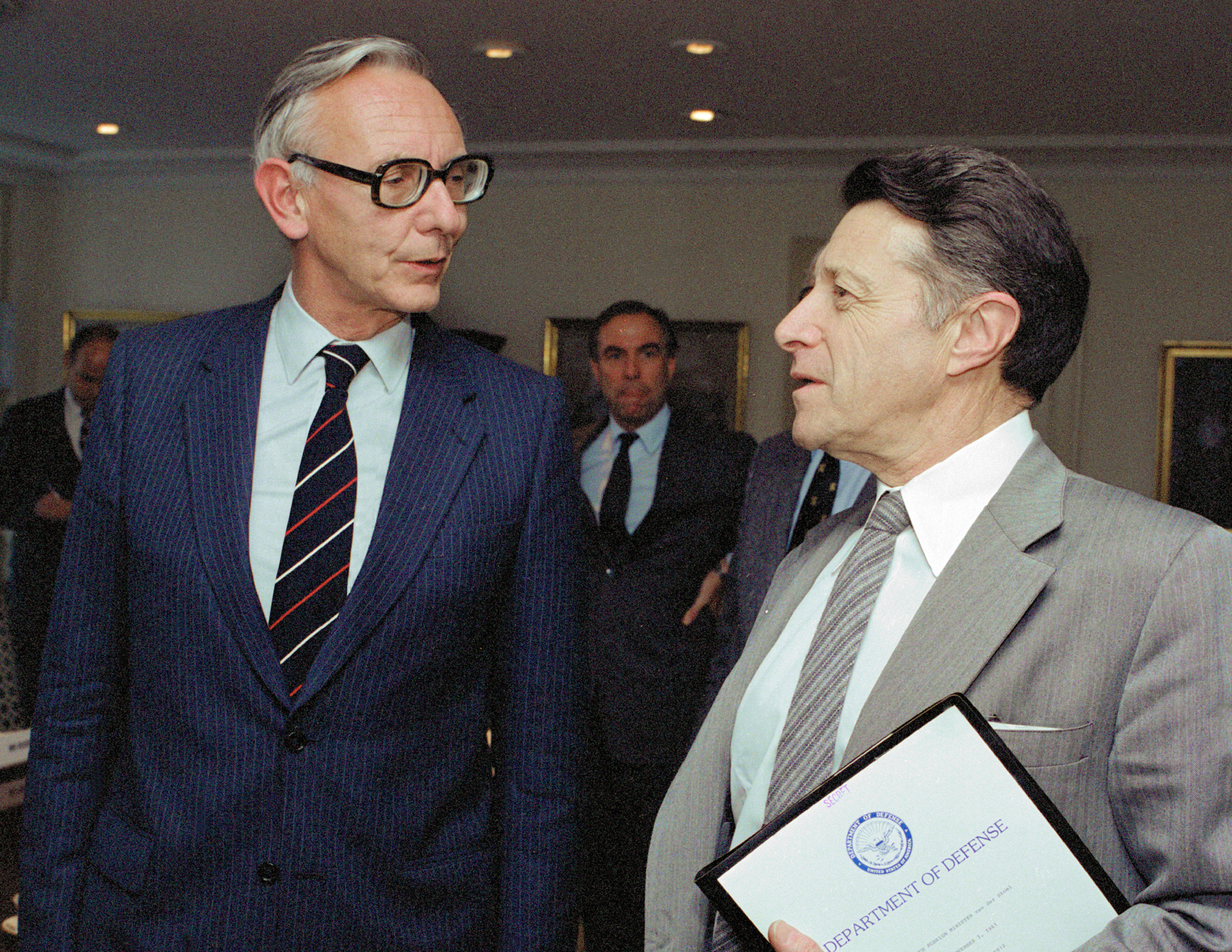 Secretary of Defense Caspar W. Weinberger meets with Foreign Minister Van der Stoel of the Netherlands in the Pentagon, Room 3E912.